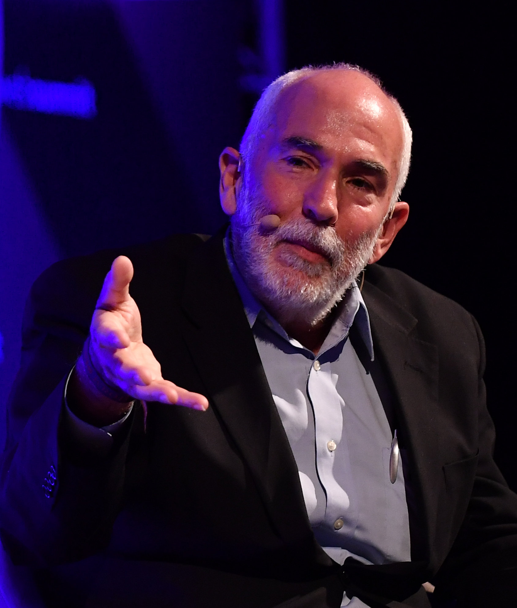 9 November 2017; Jim Motavalli, Auto Expert and Journalist, NPR/National Public Radio, on the AutoTech/TalkRobot Stage during day three of Web Summit 2017 at Altice Arena in Lisbon. Photo by Seb Daly/Web Summit via Sportsfile